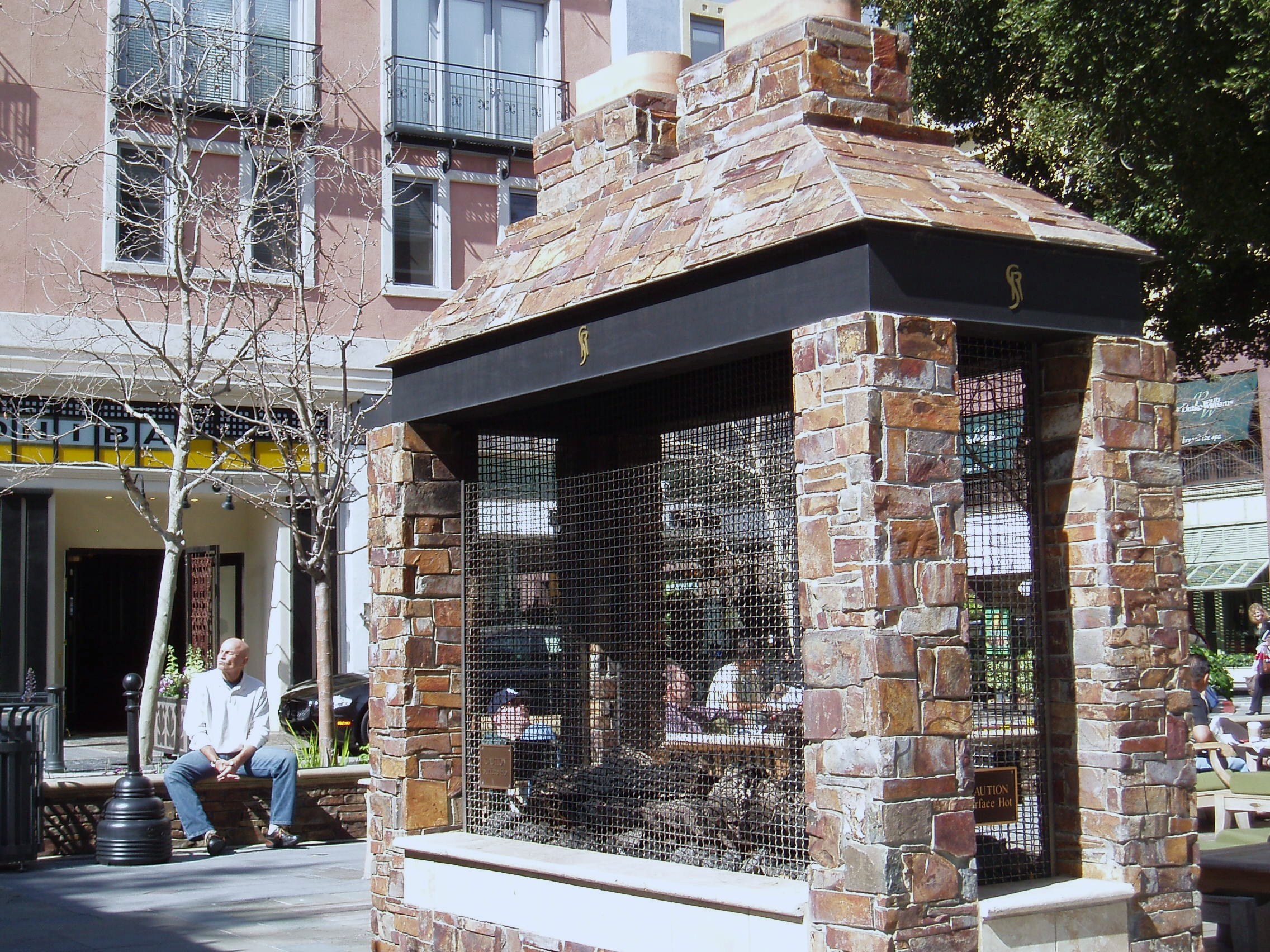 An outdooor fireplace